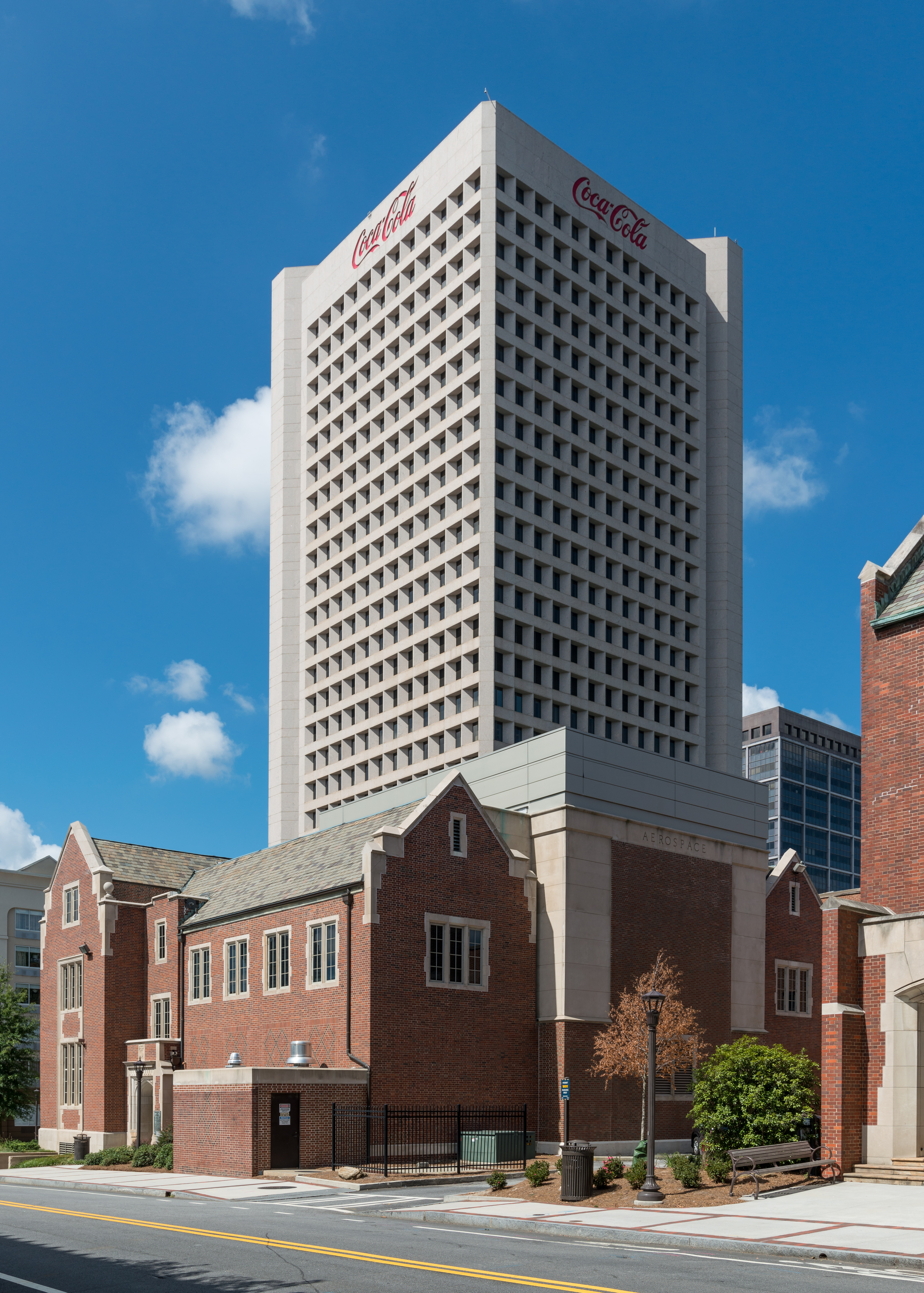 A northeast view of the headquarters of Coca-Cola and the Guggenheim Building, Georgia Tech, Atlanta